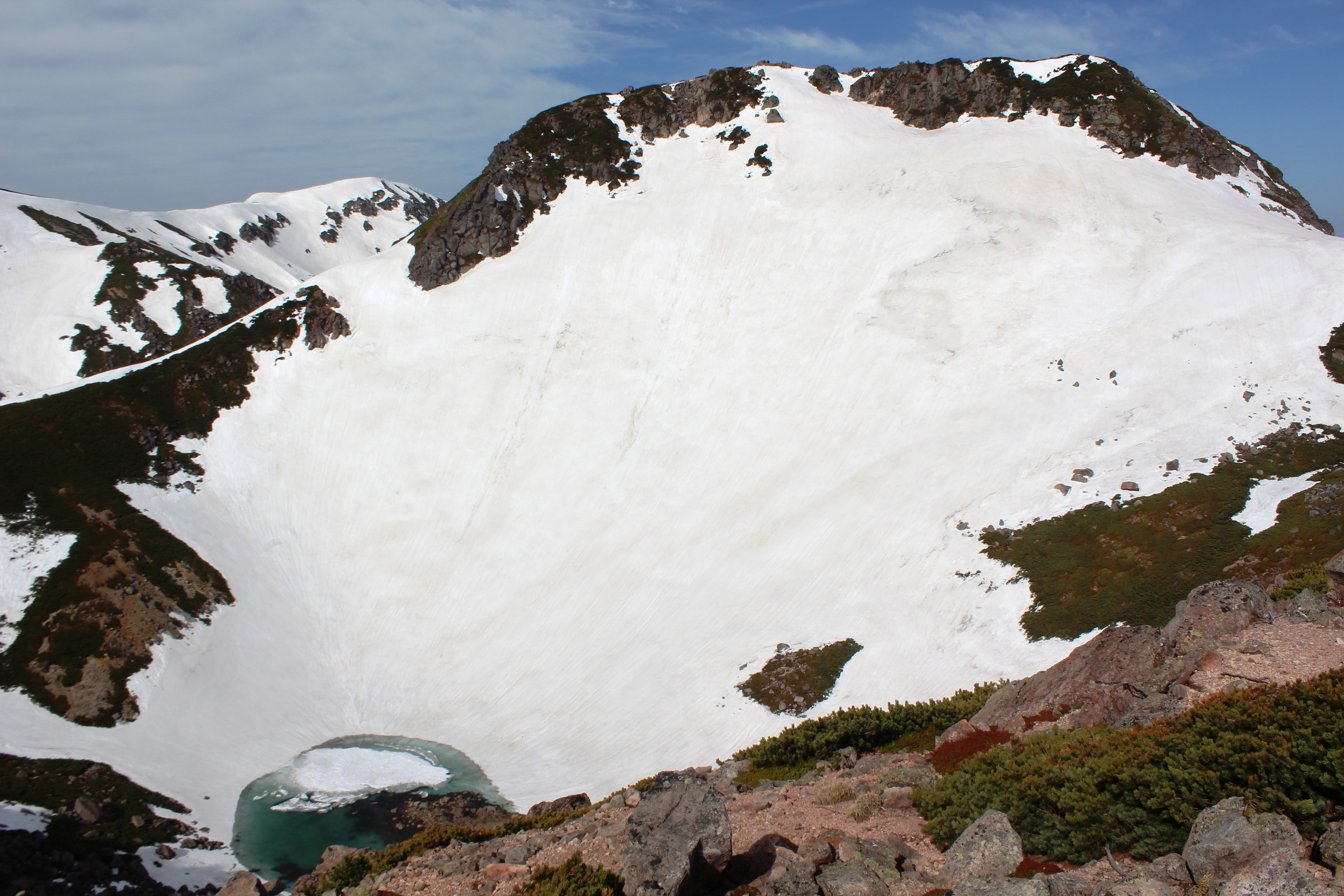 Mount Ebisu and Kamega pond (Kamegaike) of Mount Norikura in Takayama, Gifu prefecture, Japan.